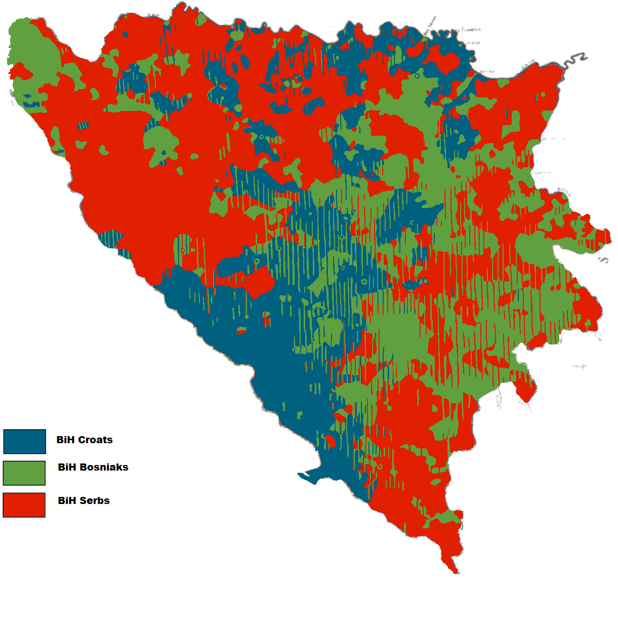 Confessional map of Bosnia and Herzegovina in 1935. Information gathered from map by K. Stj. Draganović.